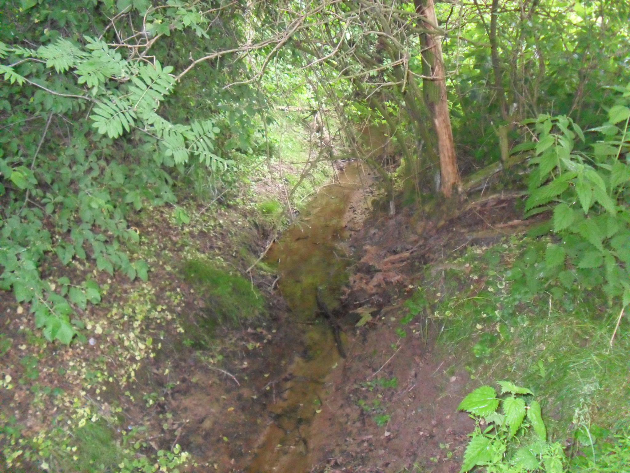 Initial course of Oława (river)